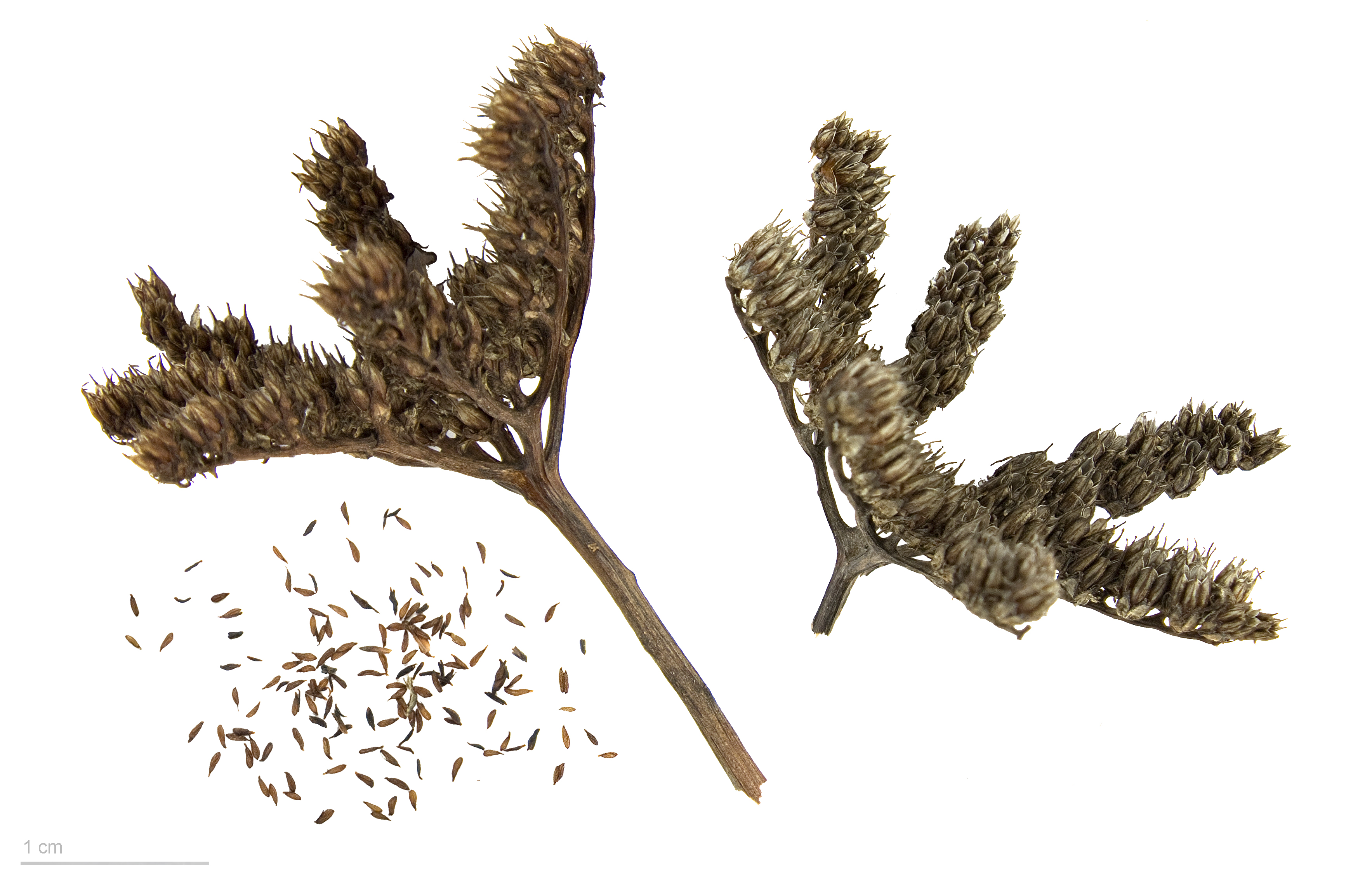 Sedum sediforme , fruits and seeds